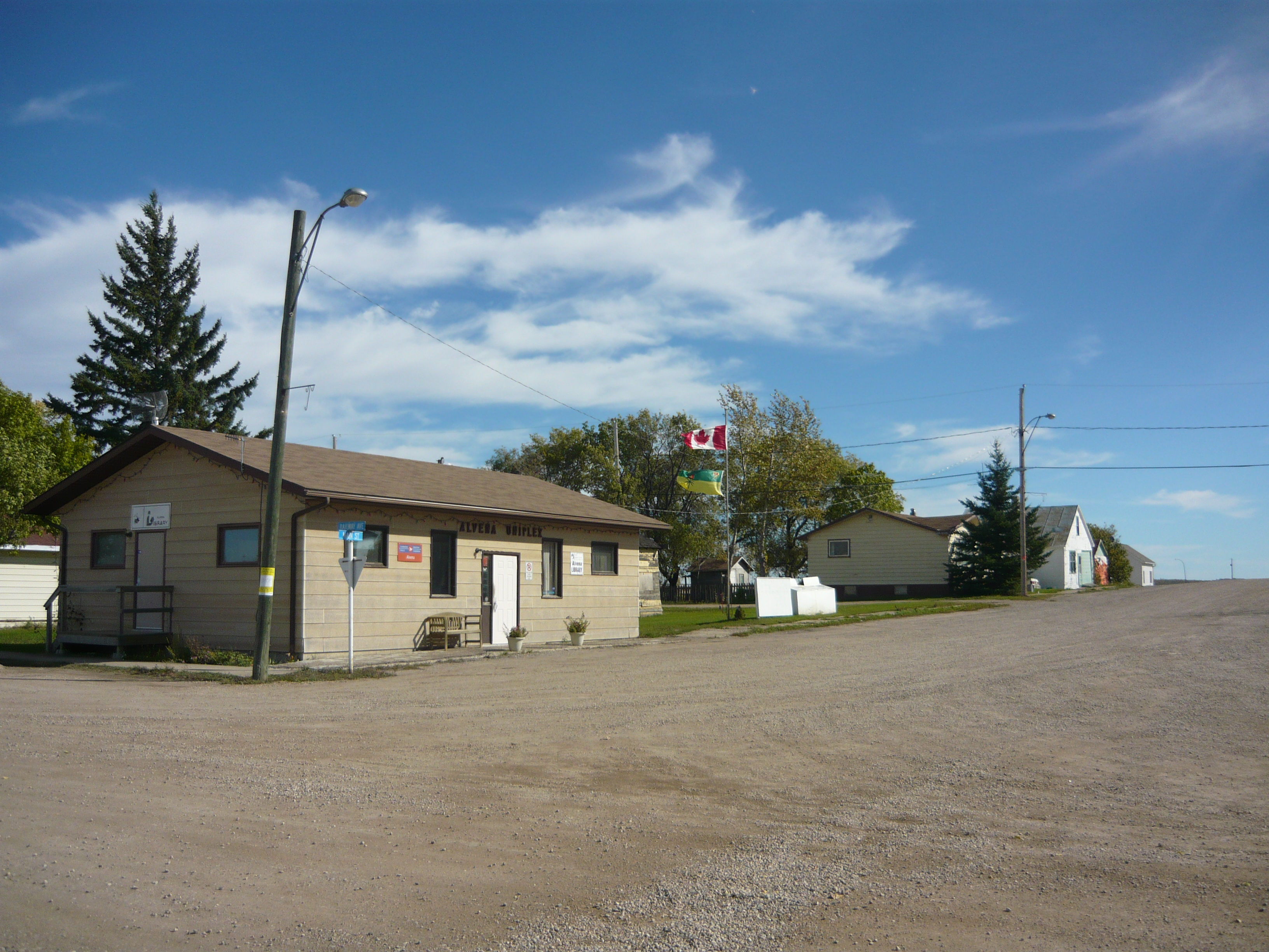 Main Street in Alvena, Saskatchewan, Canada. Photo taken from Railway Avenue, looking in a southeastern direction. The building in the foreground is the Uniplex, which includes the library and post office.